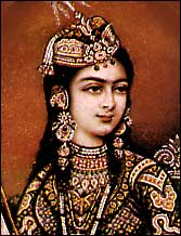 Painting thought to depict Taj Bibi Bilqis Makani, the wife of the Moghul emperor Jahangir